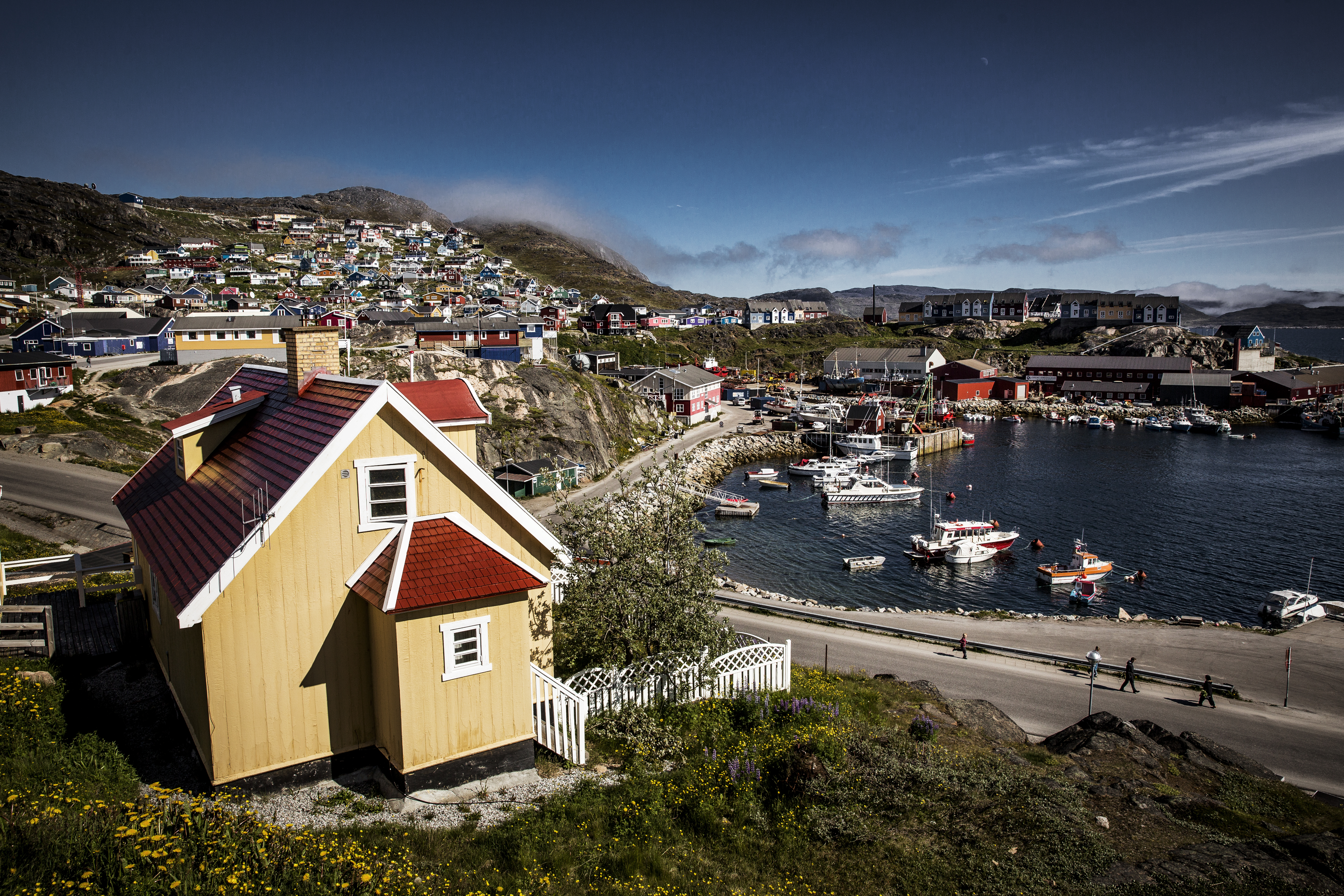 Summer in Qaqortoq Photo by Mads Pihl - Visit Greenland